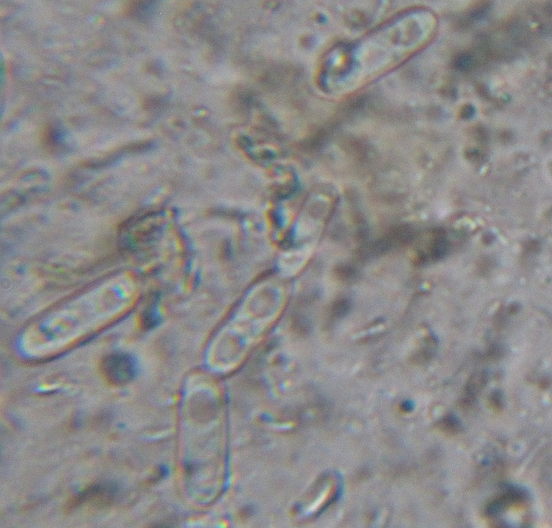 intestinal mycosis in a rabbit, fecal microscopic image